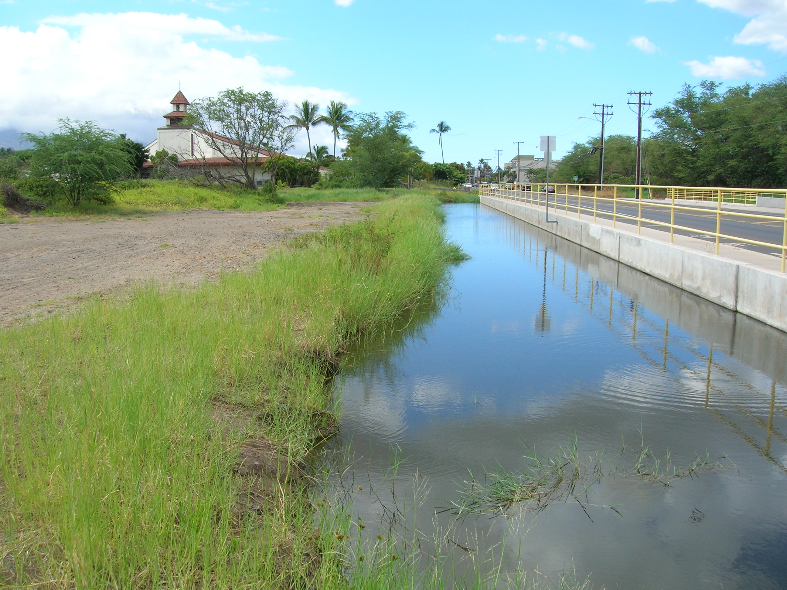 Panicum repens (habit). Location: Maui, Waiohuli Keokea